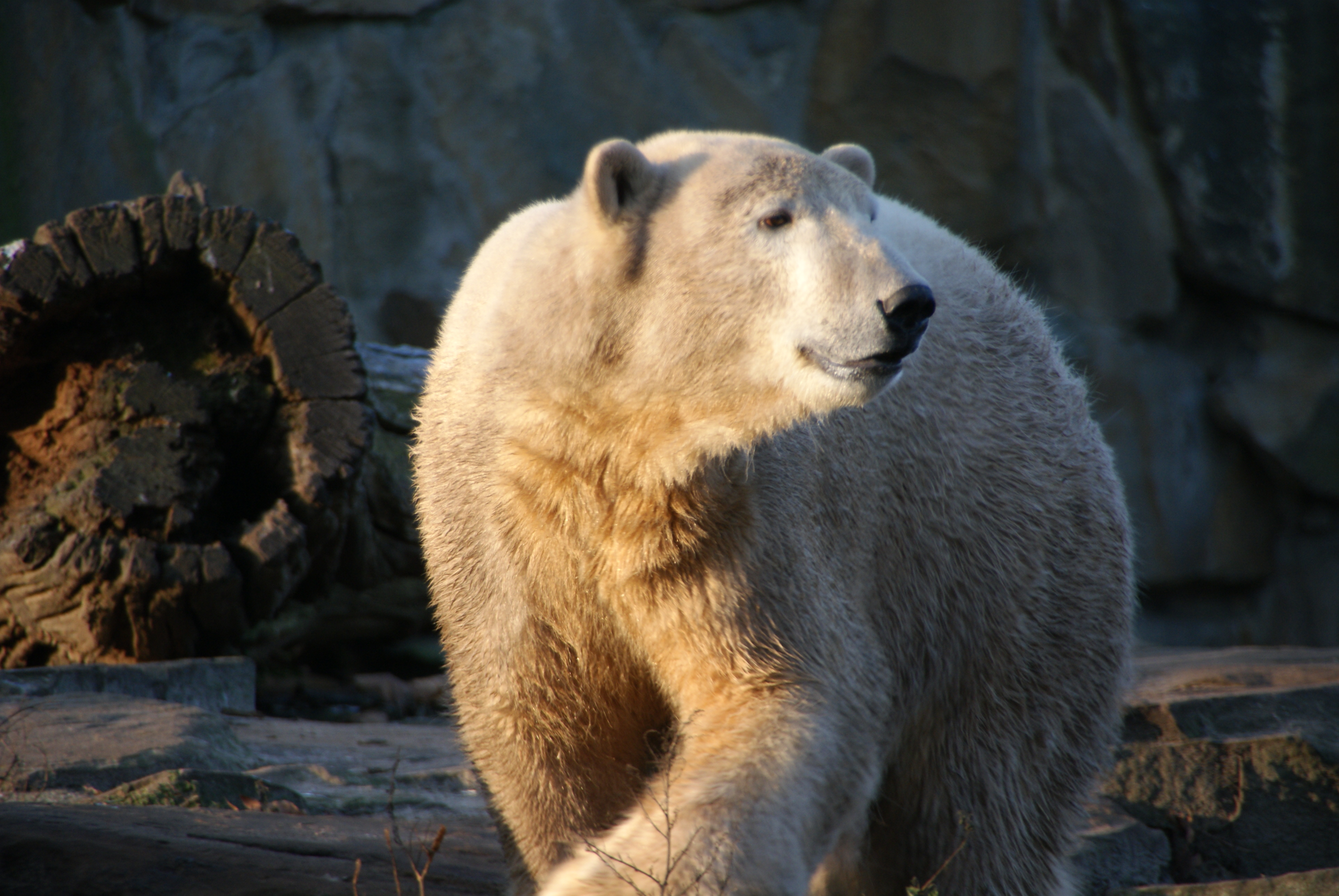 Polar bear Knut at the age of 2 years (Zoo of Berlin)